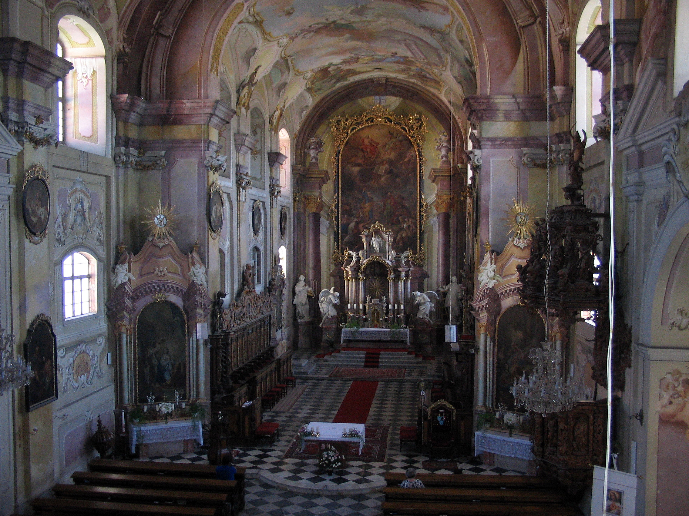 Interier of Saint Paul and Peter catholic church in Nova Rise.(Czech republic)